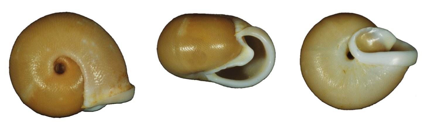 apical, apertural and umbilical view of the shell of the holotype of Chloritis vanbruggeni. From Nationaal Natuurhistorisch Museum Naturalis (formerly Rijksmuseum van Natuurlijke Historie), Leiden, The Netherlands, number 113752. The width of the shell is 21.7 mm.